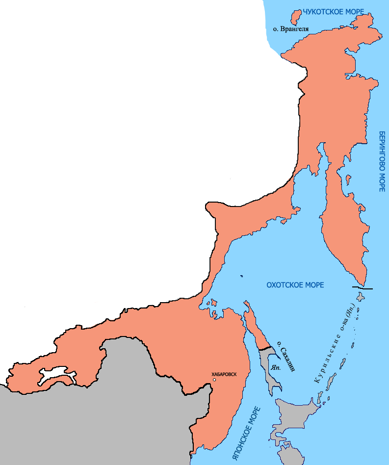 Map of Far-Eastern kraj (1929)